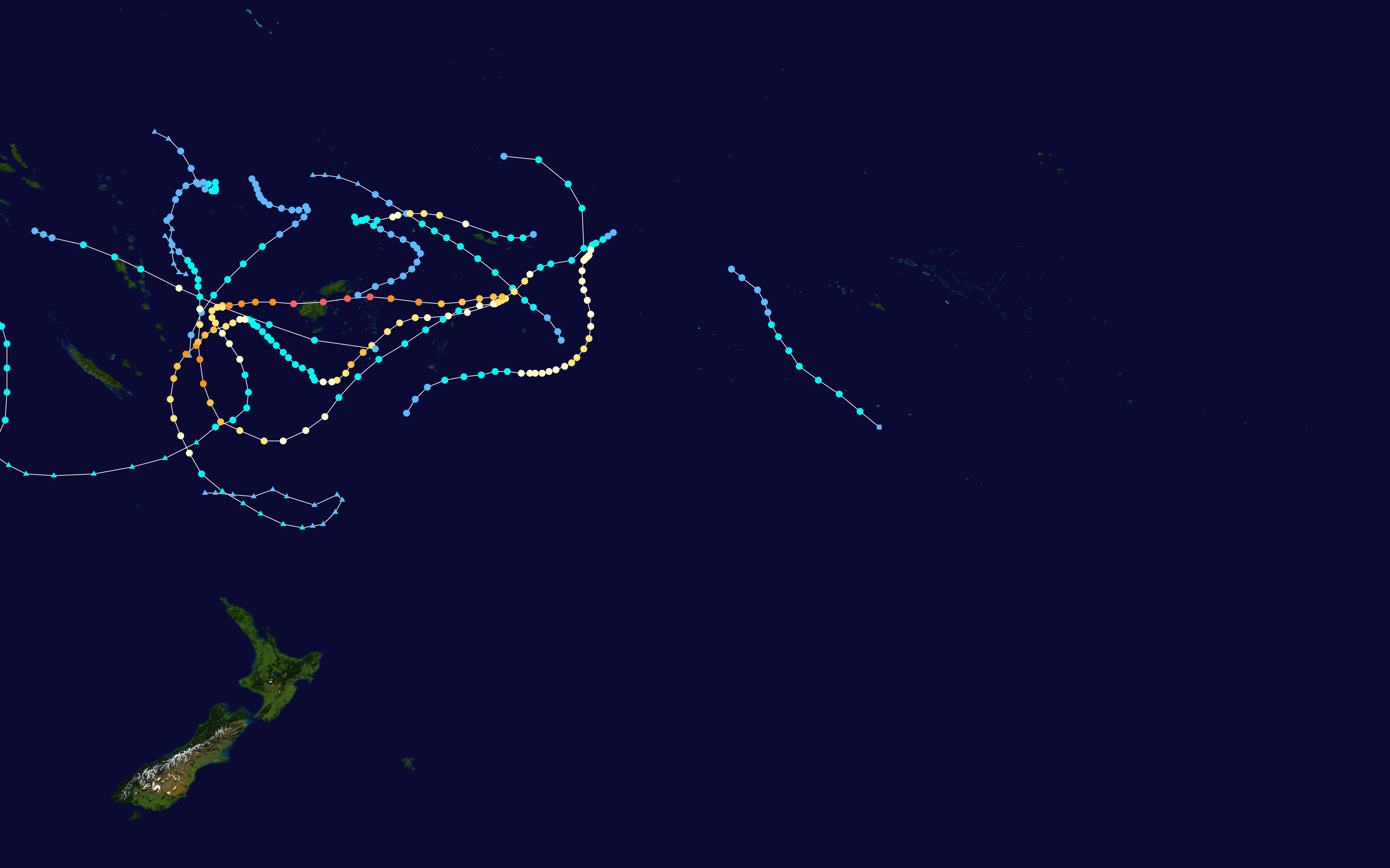 This map shows the tracks of all tropical cyclones in the 2015-16 South Pacific cyclone season. The points show the location of each storm at 6-hour intervals. The colour represents the storm's maximum sustained wind speeds as classified in the Saffir-Simpson Hurricane Scale (see below), and the shape of the data points represent the type of the storm. Saffir–Simpson scale Tropical depression≤38 mph≤62 km/h Category 3111–129 mph178–208 km/h Tropical storm39–73 mph63–118 km/h Category 4130–156 mph209–251 km/h Category 174–95 mph119–153 km/h Category 5≥157 mph≥252 km/h Category 296–110 mph154–177 km/h Unknown Storm type Tropical cyclone Subtropical cyclone Extratropical cyclone / Remnant low / Tropical disturbance / Monsoon depression